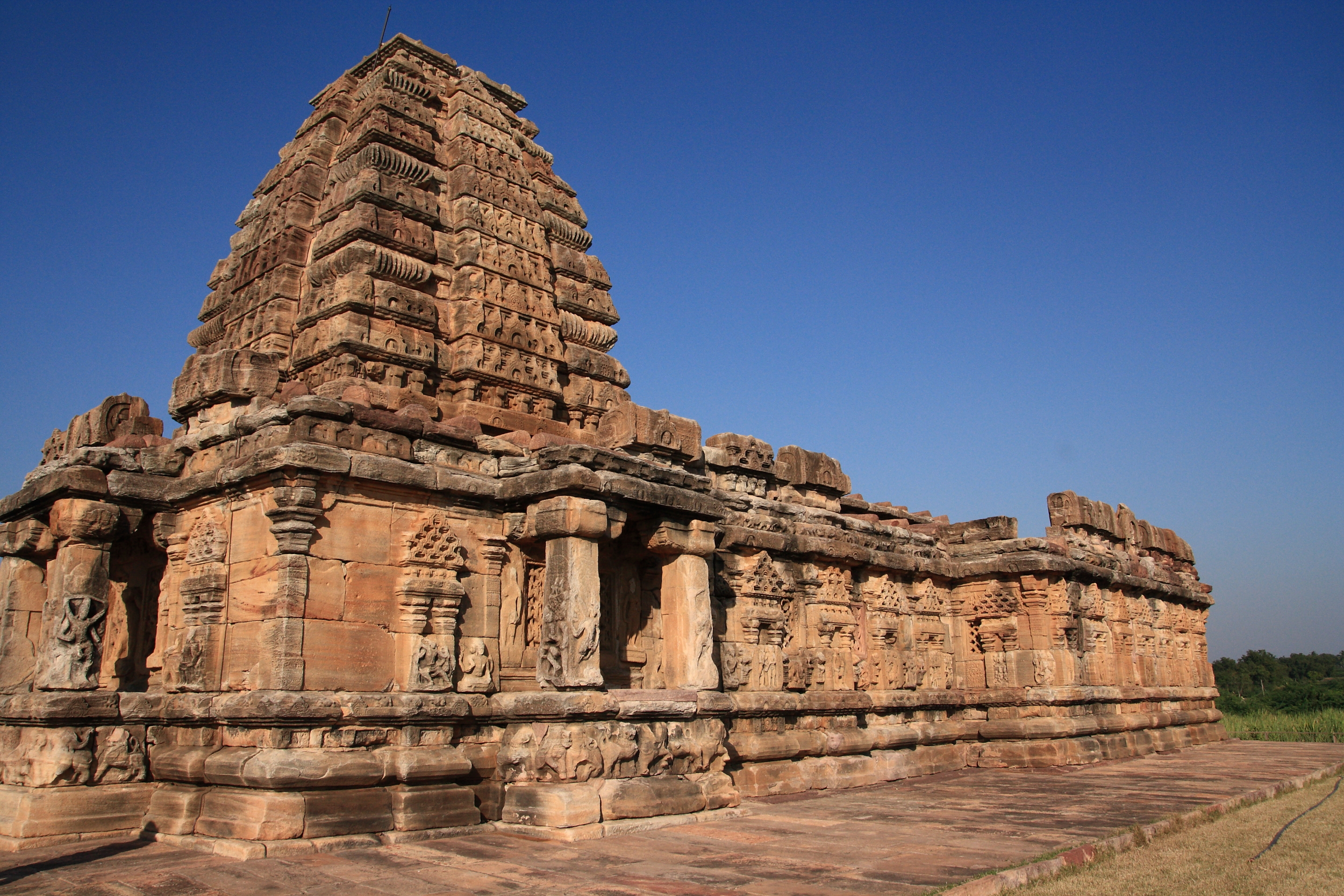 Papnatah temple , pattadakal